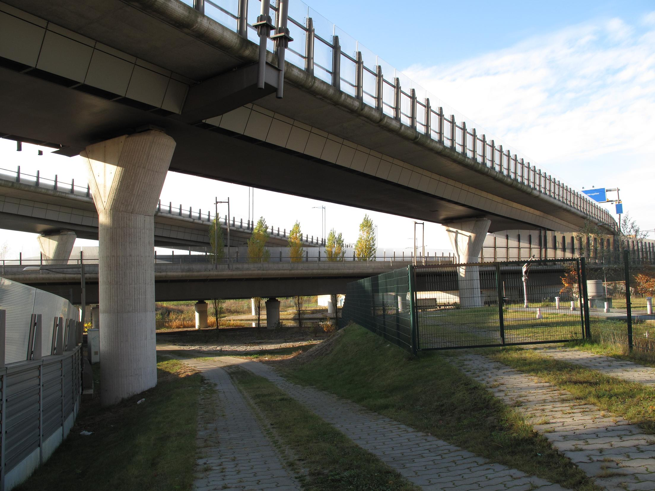 The nameless motorway bridge in Berlin-Neukölln is a part of the Berliner Stadtring (A 100) and of the three-leg motorway interchange Neukölln (Autobahndreieck Neukölln) crossing the Neuköllner Schiffahrtskanal (canal). The bridge consists of six parts and was built between 1997 and 2004.